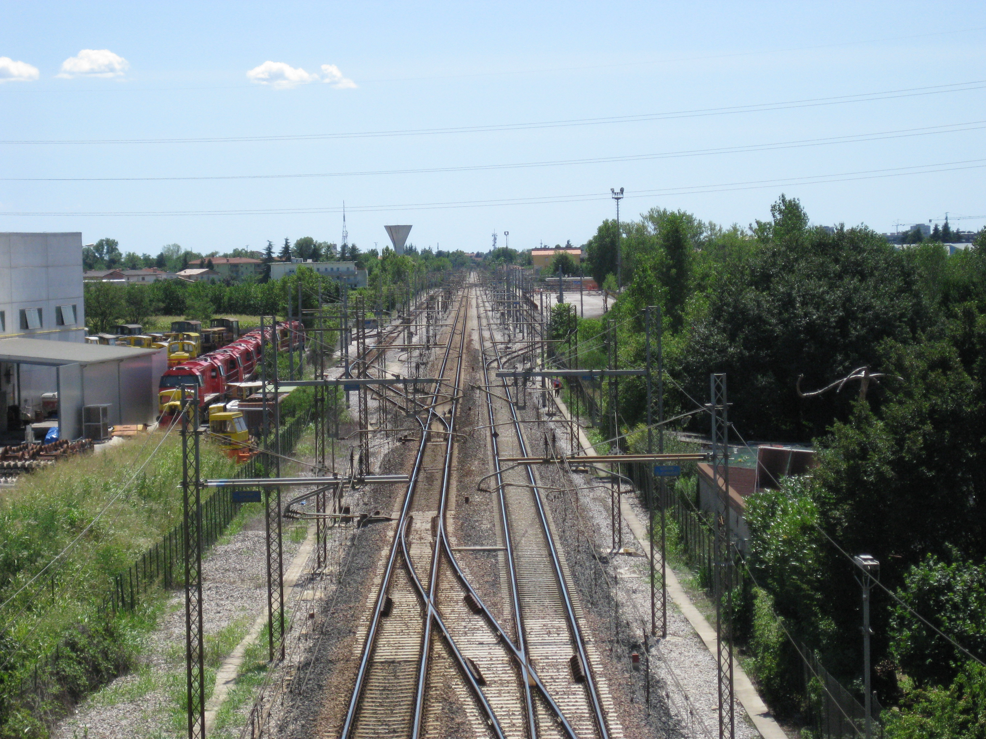 View south onto Posto movimento Vat, northern Udine